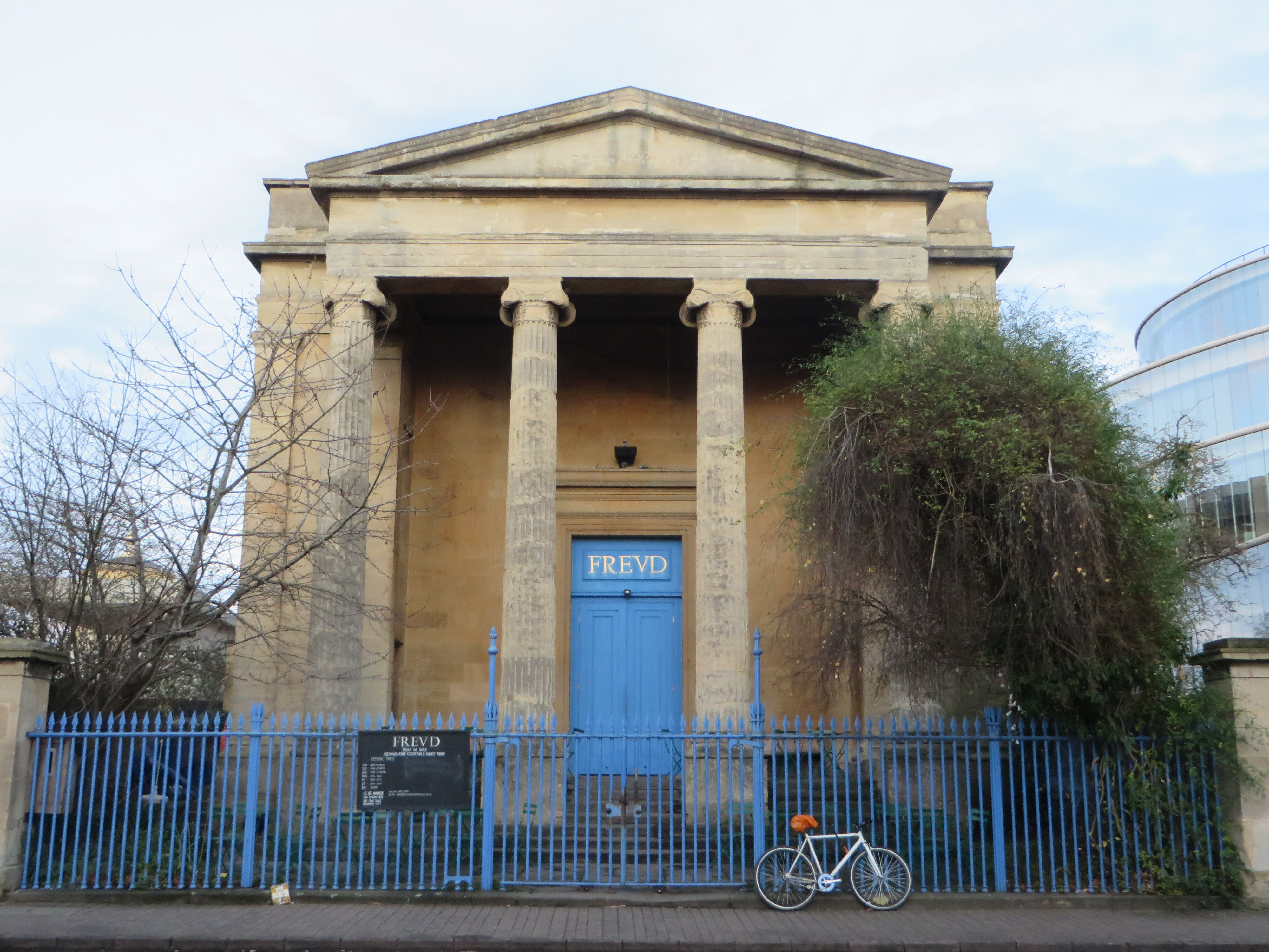 Freud's café bar in Walton Street, Jericho, Oxford: built in 1836 as St Paul's parish church